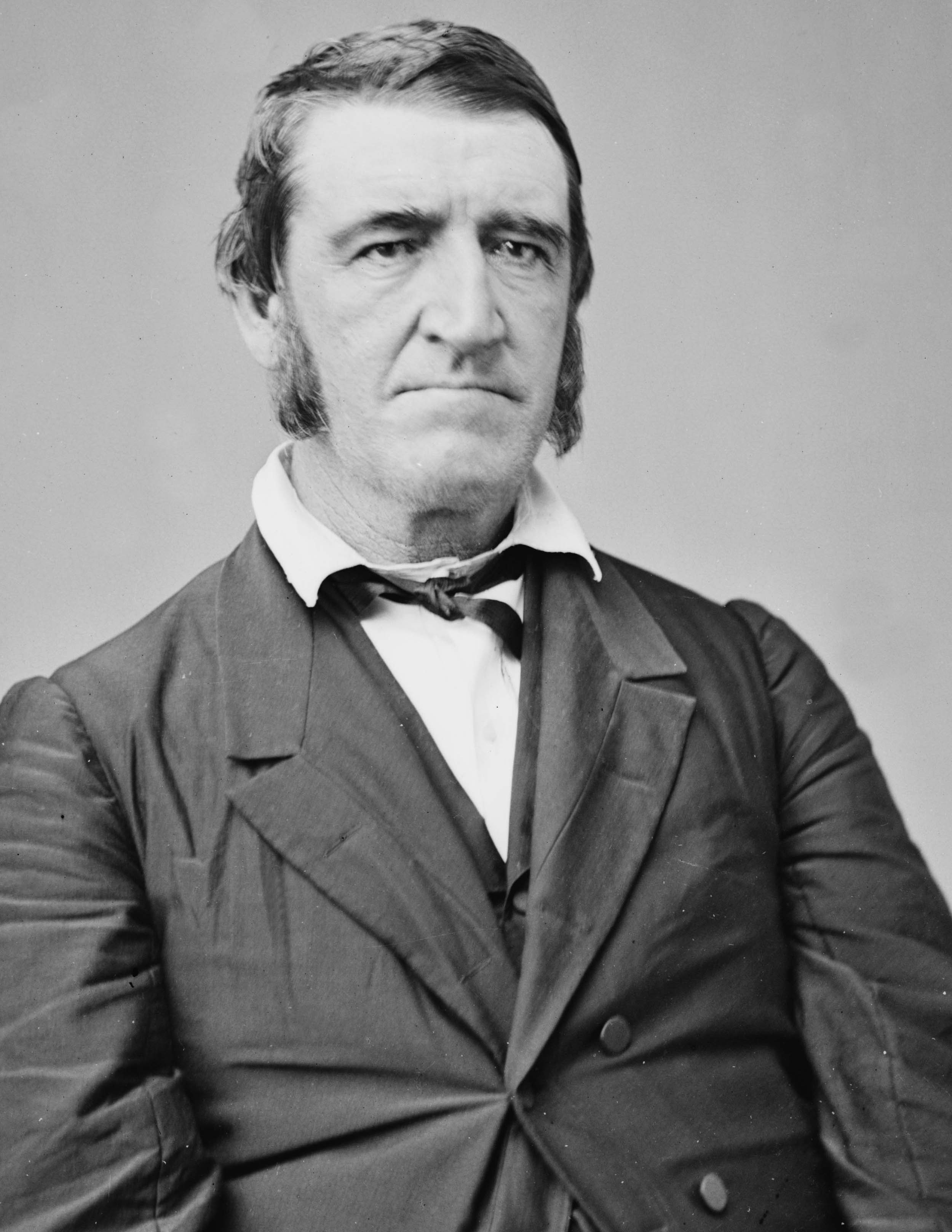 William Alexander Richardson. Library of Congress description: "Hon. Wm. Alexander Richardson of Ill."